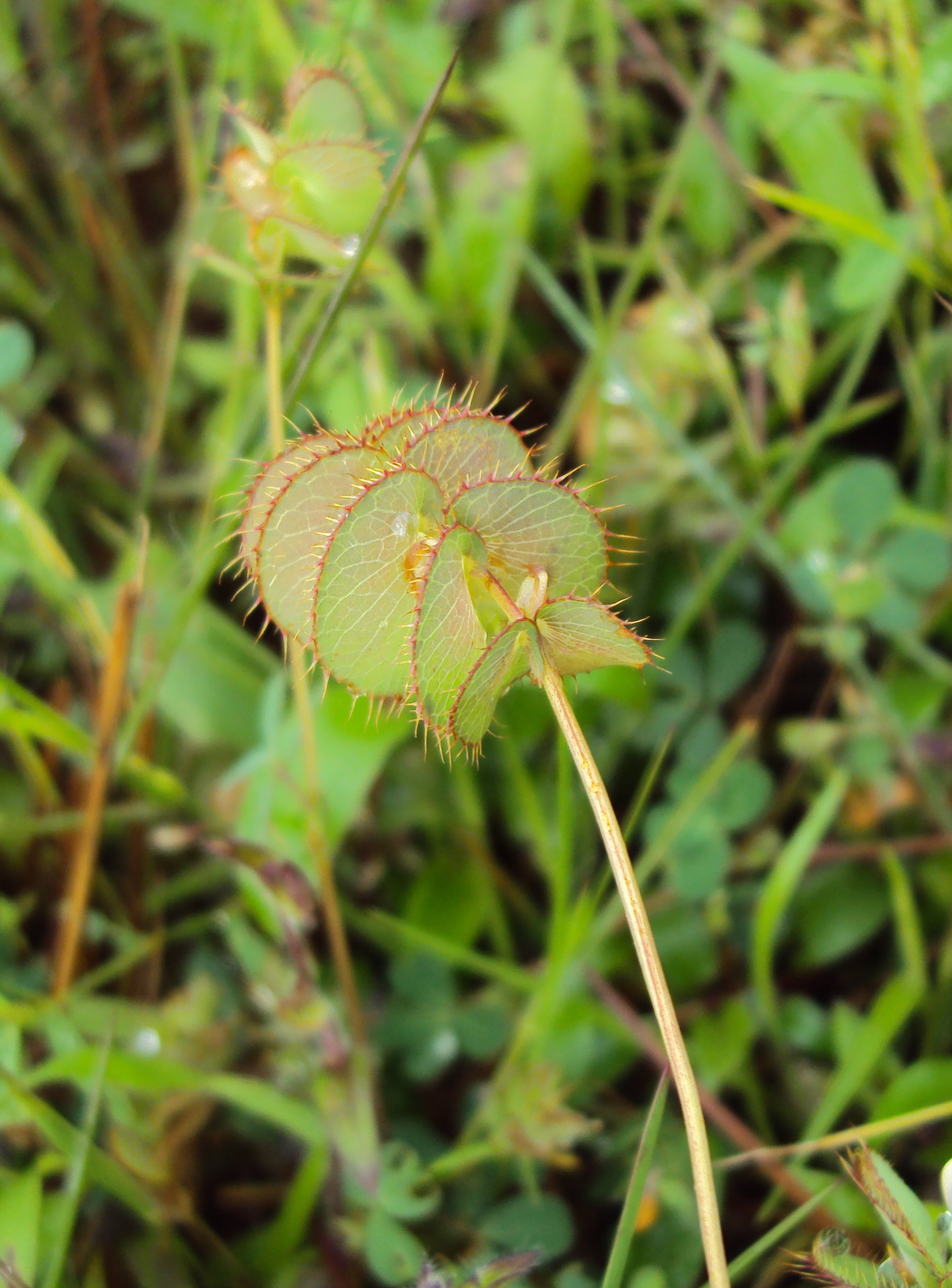 Geissaspis cristata